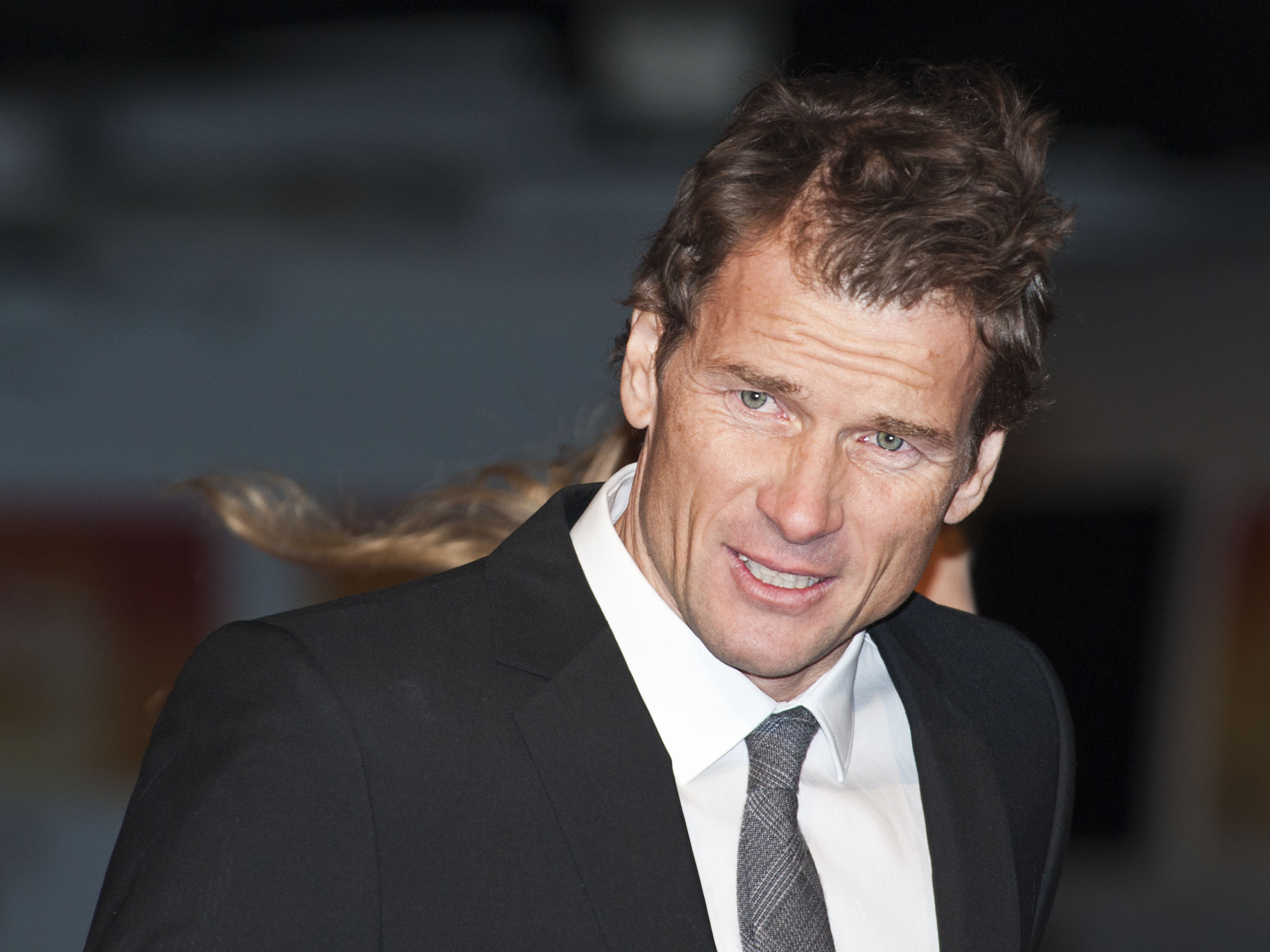 German football goalkeeper Jens Lehmann at the Cinema for Peace gala.